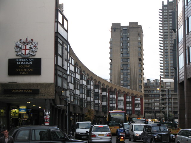 Crescent House, Golden Lane Estate, Goswell Road, EC1 Shows the location of 1069831.